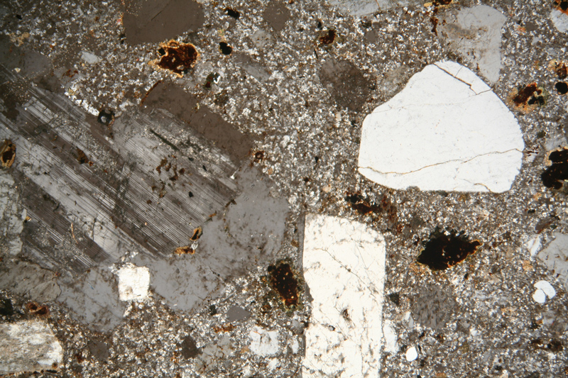 Siim Sepp, 2006 Igneous rock rhyolite. Photomicrograph with crossed polars. The width of the view is approximately 0,3 cm. Porphyritic texture. Main phenocrysts are quartz, potassium feldspar and plagioclase. Cryptocrystalline groundmass is composed of quartz, potassium feldspar, plagioclase and chloritized biotite.